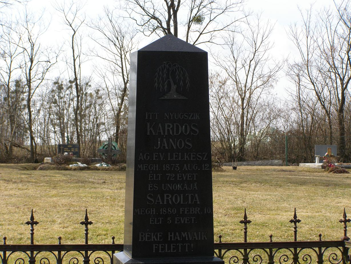 The grave of János Kardos in Hodoš